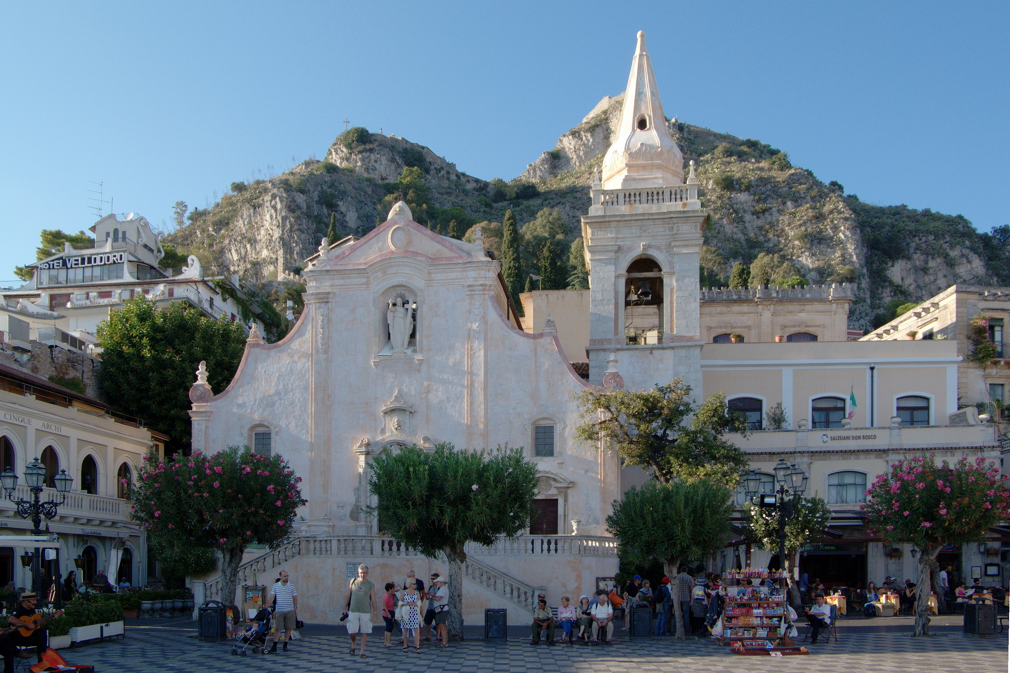 Italy, Sicily, Taormina, S. Giuseppe